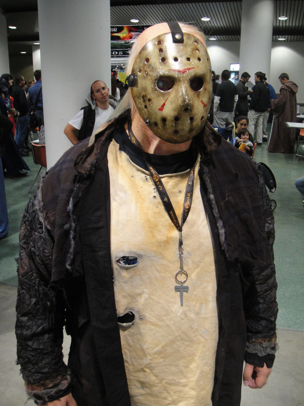 Cosplay of Jason Voorhees at Comikaze Expo 2011.